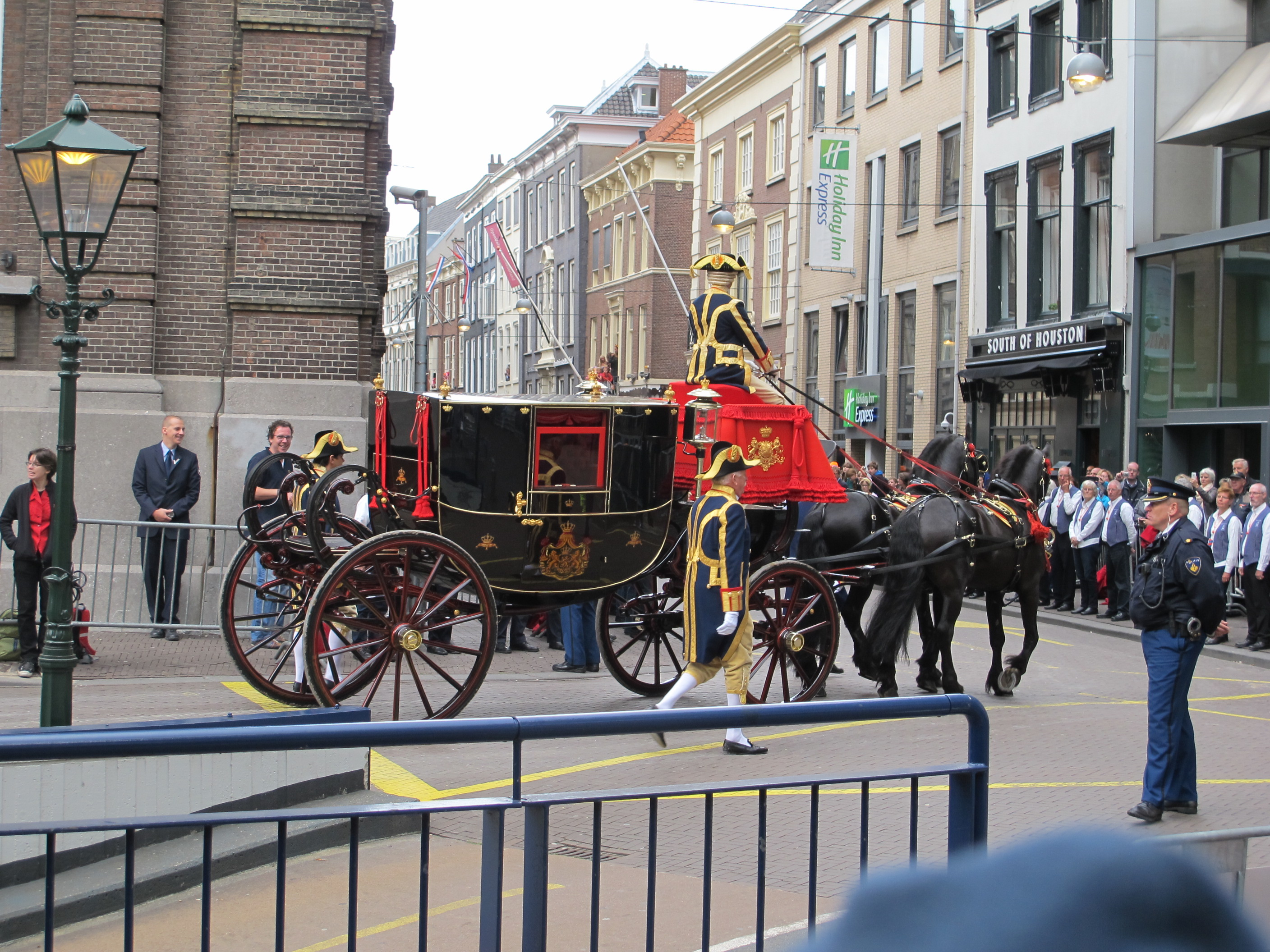 Prinsjesdag 2013, Royal Tour on the way back after the Speech from the Throne. Photos on Plein, The Hague.